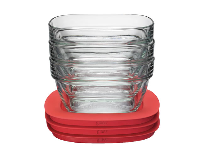 Now, you can enjoy the organization benefits of the Easy Find Lids system with the versatility of glass. Like other Easy Find Lids products, Rubbermaid Glass containers have lids and bases that neatly nest for compact storage. Lids snap to bases and other lids to make finding the right lid a breeze. Glass bases are designed to stack neatly, which saves space and prevents them from getting stuck together. Rubbermaid glass containers are also ideal for reheating foods in the microwave and the glass bases are oven safe up to 425°F. Plus, a built-in gasket creates a leak-proof seal. Learn more at